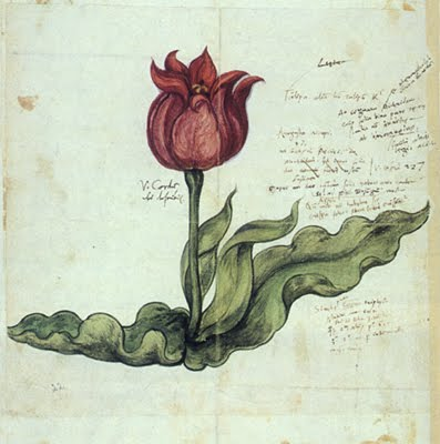 Wood engraving after a drawing of a tulip by Conrad Gesner, ca. 1561, with Gesner's own handwriting. This image depicts the tulip discovered by Gesner in Augsburg in April 1559 - the first reliably known tulip in the Christian world. Modern botanists place it into Tulipa suaveolens species.